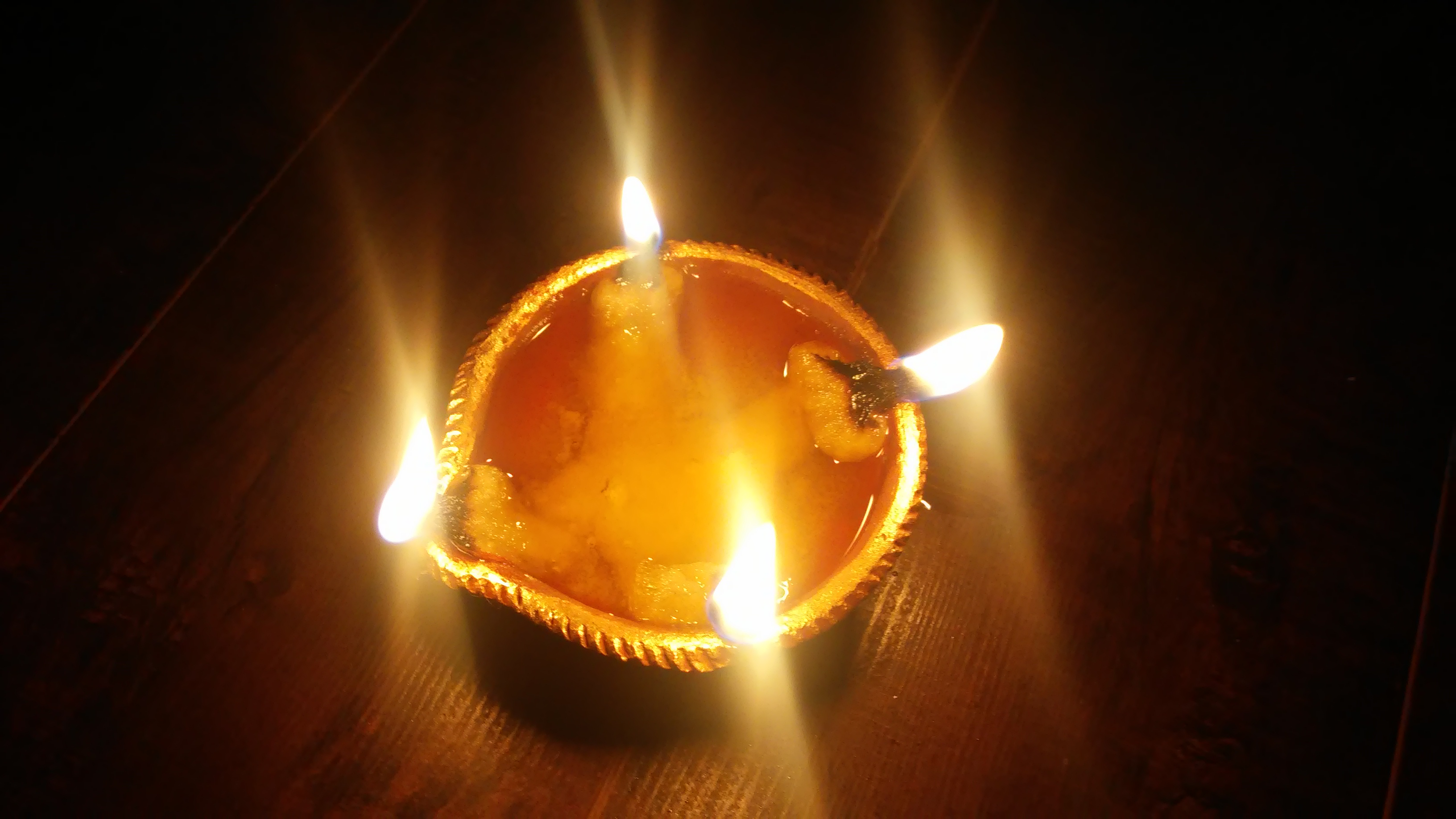 Diya with two wicks, flame in all four directions. NWSE.